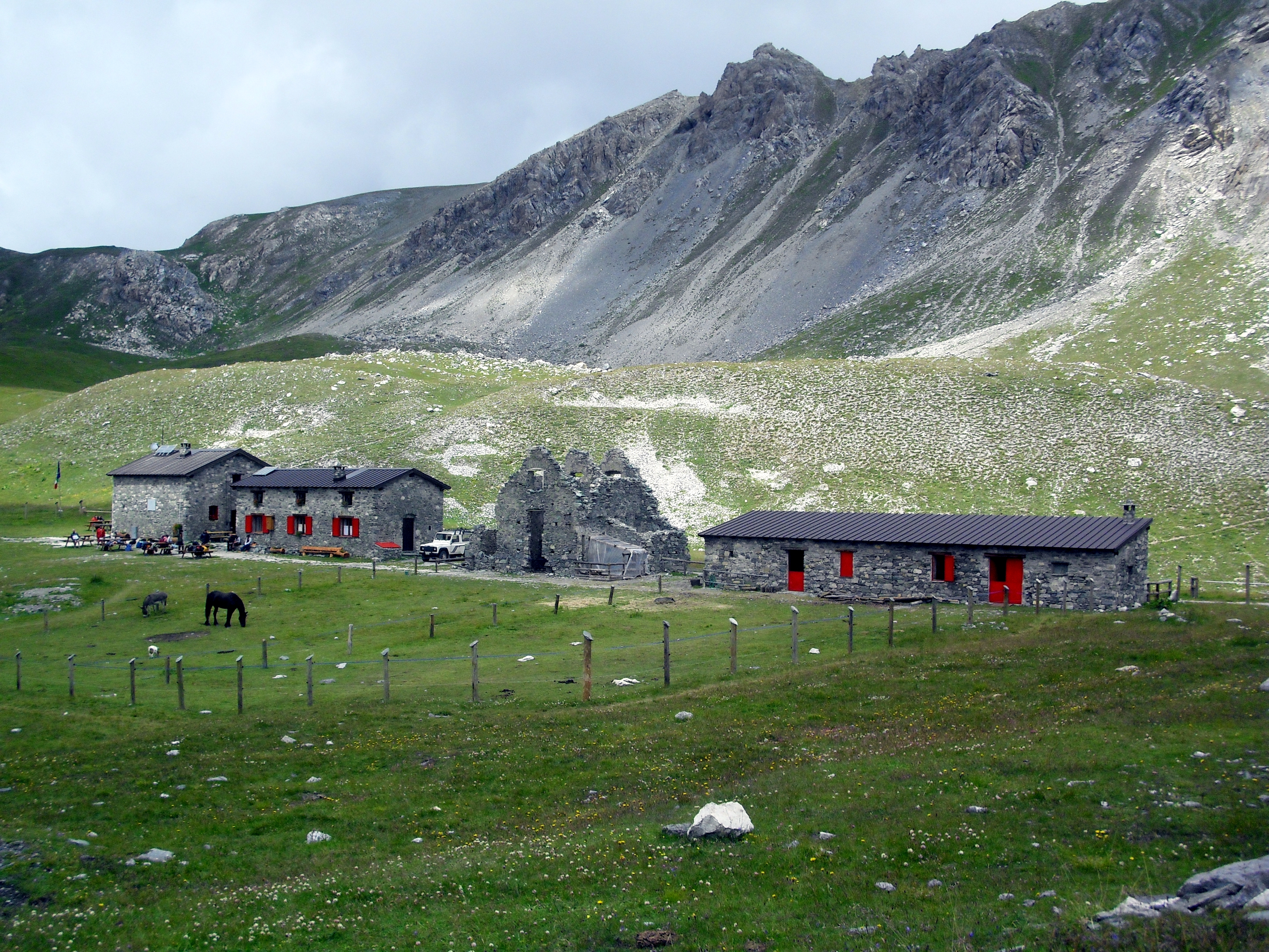 View of the Rifugio della Gardetta (Gardetta's alpine hut) (Italy)